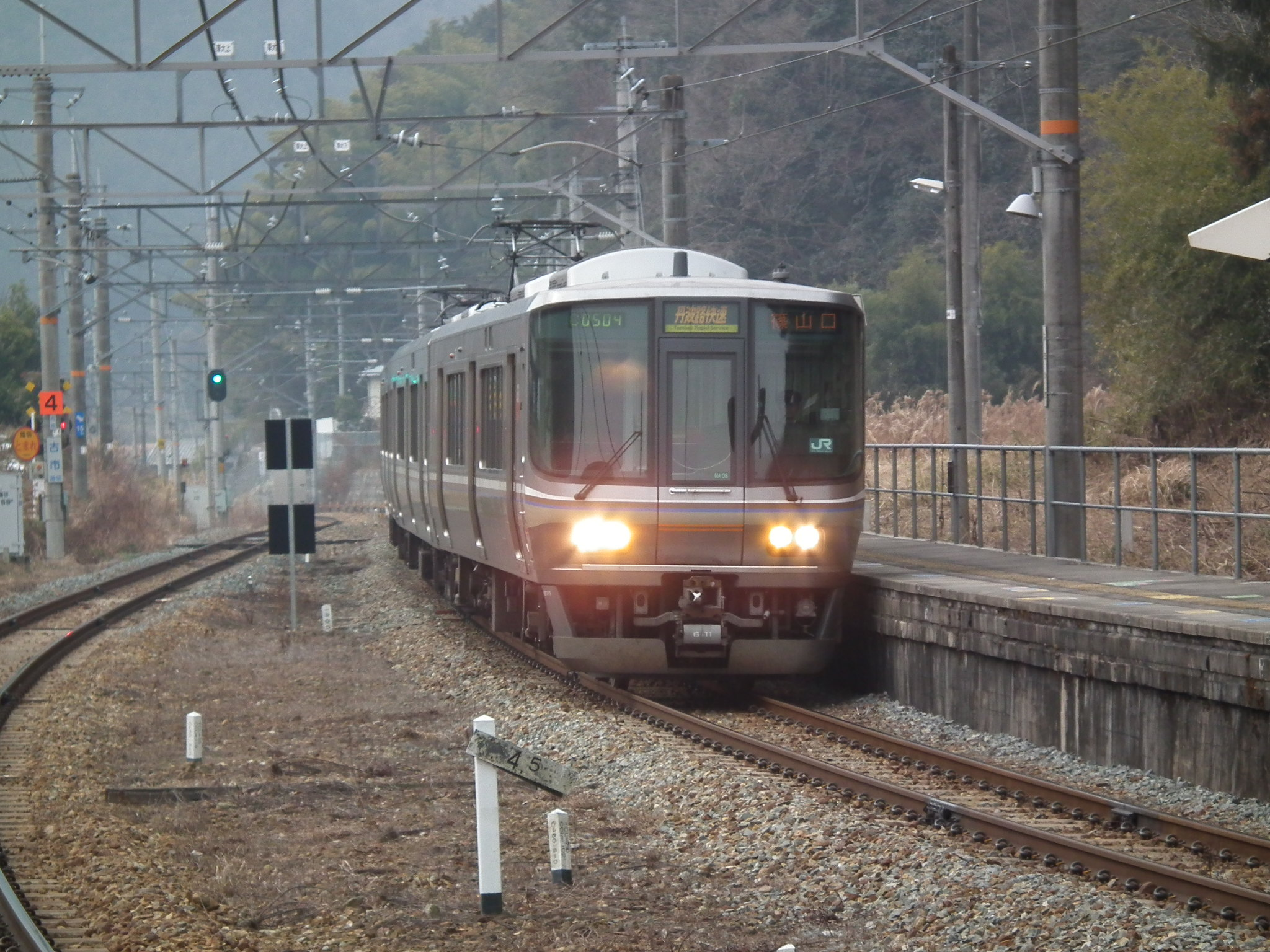 JR West 223 series EMU for Tambaji Rapid Service train approaching Furuichi Station in Sasayama, Hyogo, Japan